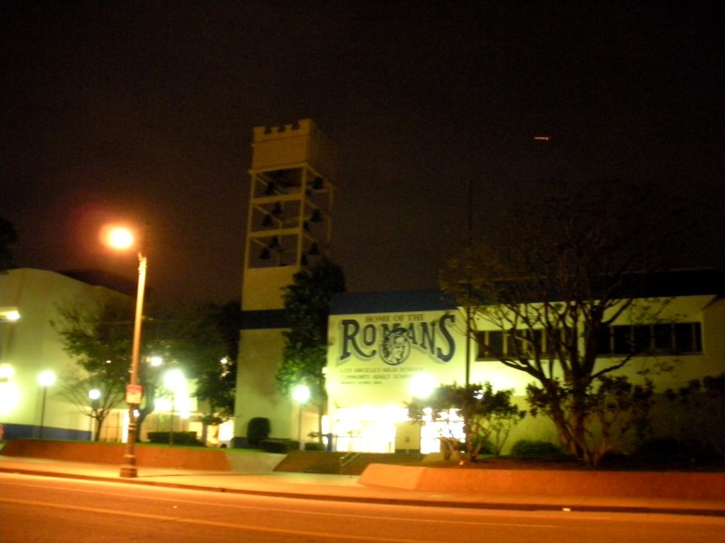 Los Angeles High School at night, LAUSD, Los Angeles, California.